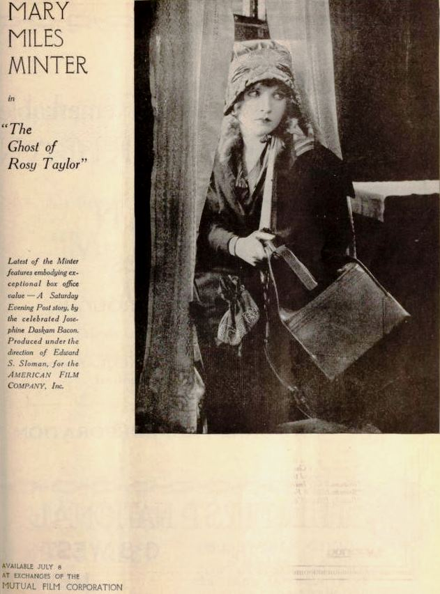 Advertisement for the American drama film The Ghost of Rosy Taylor (1918) with Mary Miles Minter, on page 3 of the July 13, 1918 Exhibitors Herald.